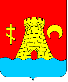 Coat of Arms of Ochakiv